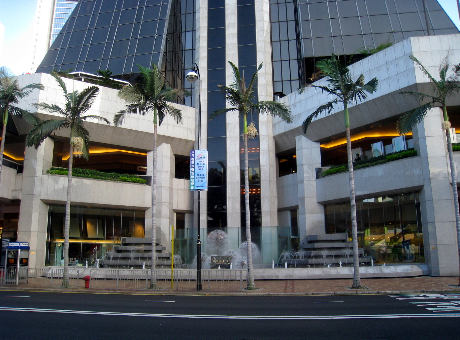 Sun Hung Kei Centre Enterance Fountain